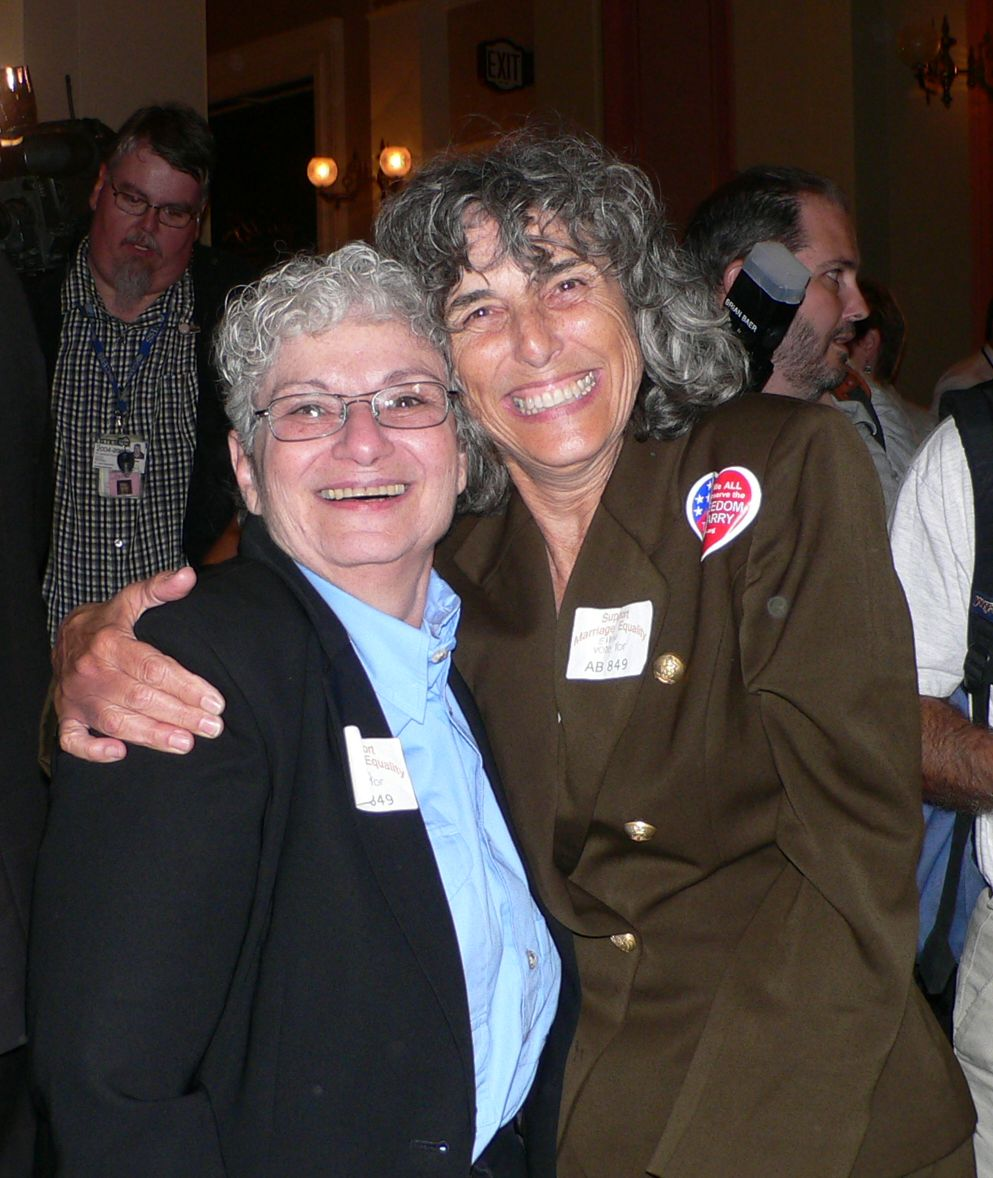 "Victory!" - This couple has been waiting 31 years to be able to marry. On September 5, 2005 we went to the state capitol waiting for a vote on the marriage equality bill. In the end, the assembly voted in favor of equality for gay couples. Governor Schwarzenegger later refused to sign the bill.